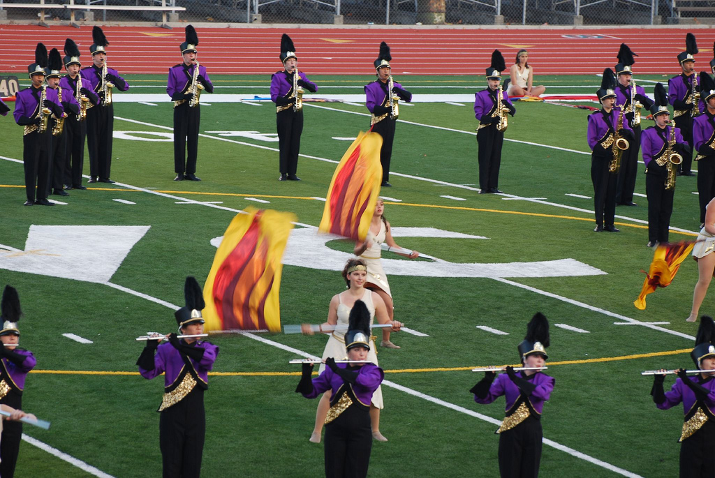 Amador Valley Marching Band and Color Guard performs its show titled "Heroes, Gods, and Mythical Creatures" at the 2008 WBA Championships.